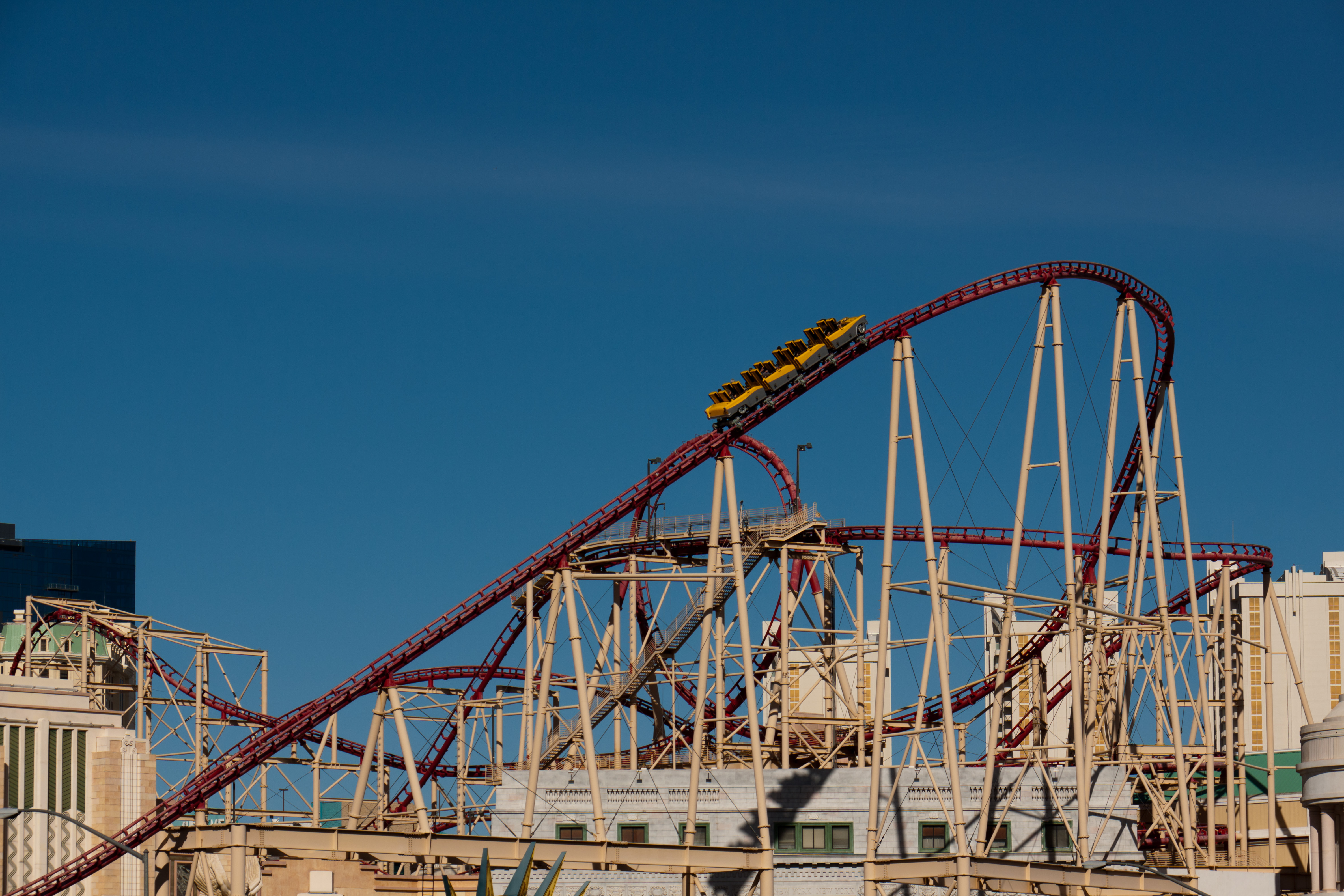 The Roller Coaster (former Manhattan Express) at New York New York hotel in Las Vegas